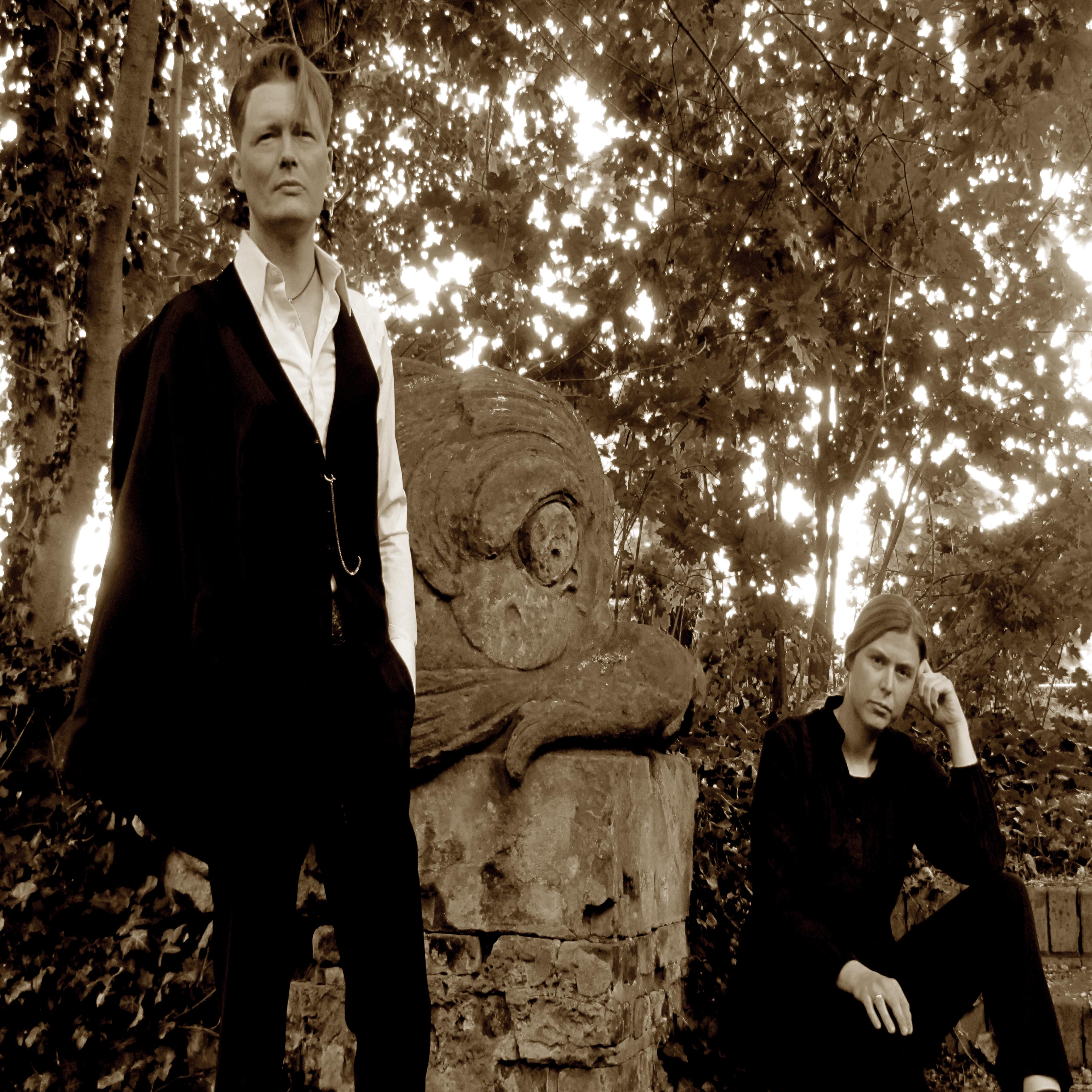 'Fog Mountain' - Photo Session 2012